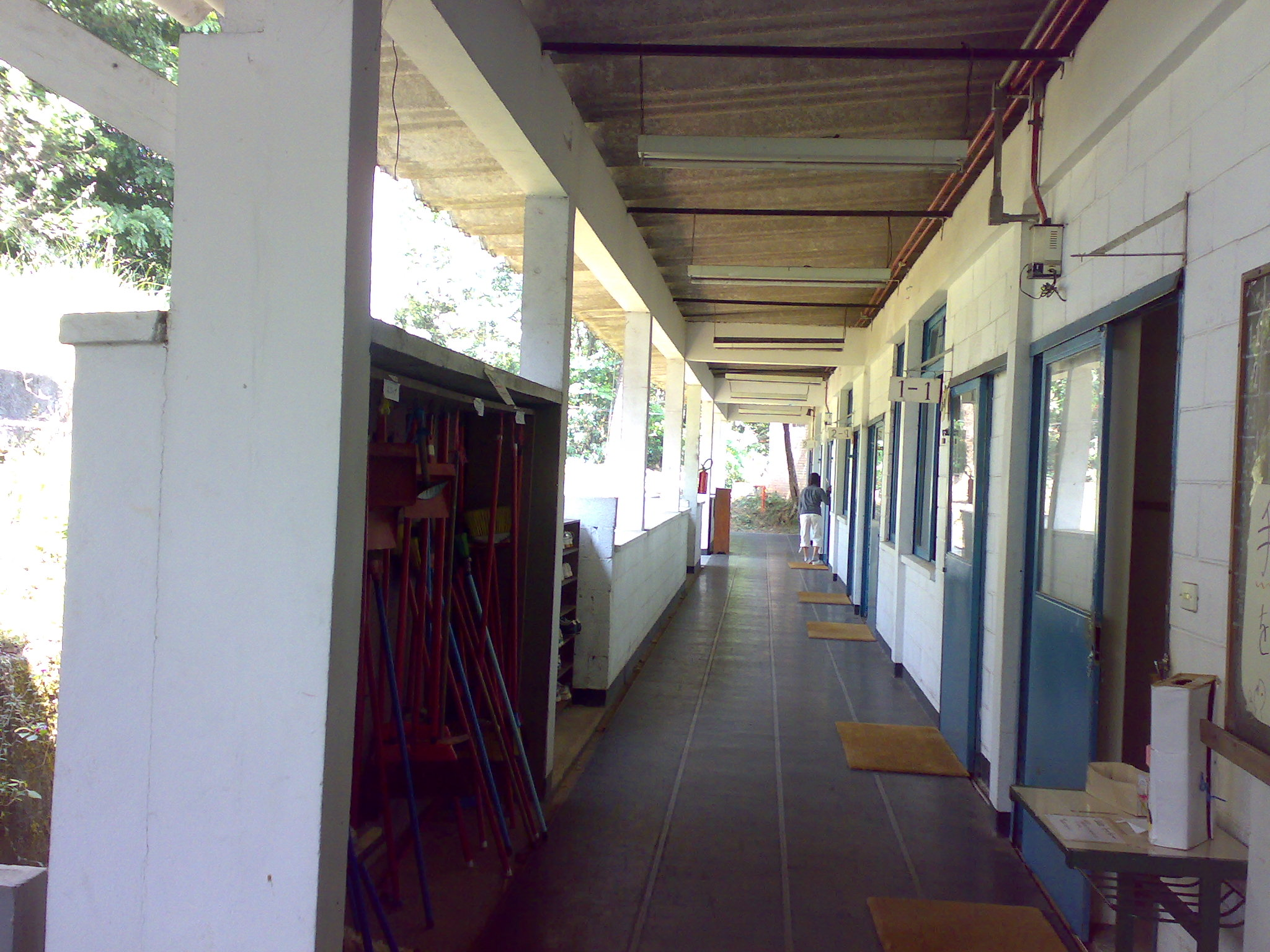 Office of Sao Paulo Japanese School